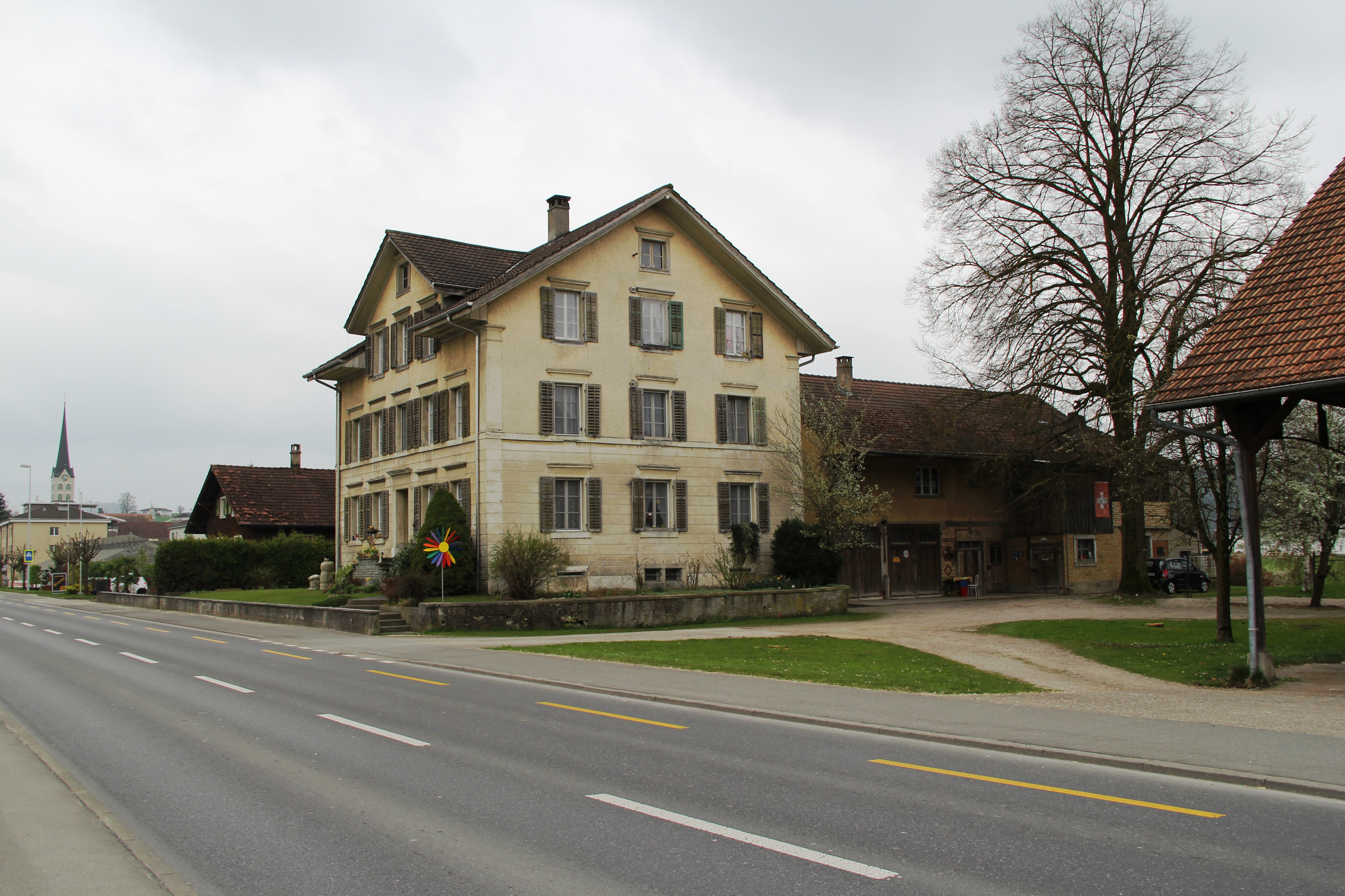 Building Nebikerstrasse 25 in Schoetz (Switzerland). Originally build als Railway-Station Restaurant and Hotel, but never used as such after the already started build of the Langenthal-Wauwil-Railroad has been been cancelled. The building has been demolished in November 2014.